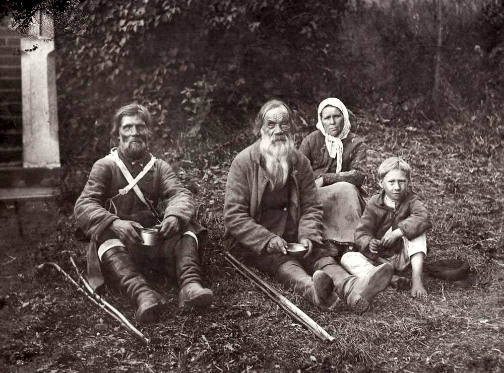 Farm workers — hired farm laborers, usually impoverished peasants. Russia, the late XIX—early XX century.